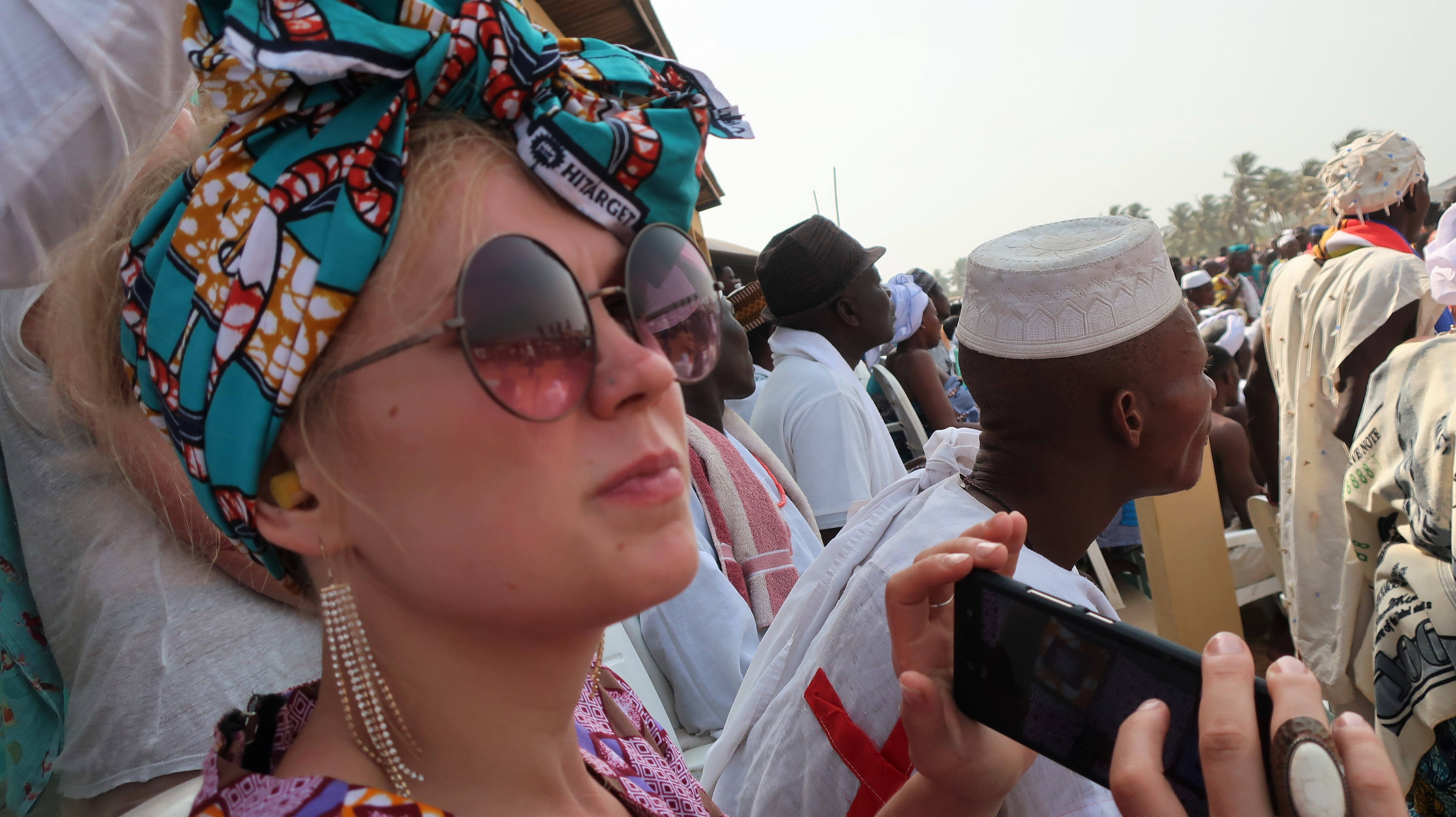 Noora Kauppila, a dancer and singer from Finland is attending the Vodoun festival in Grand-Popo, Benin in January 2018, while the audience is watching the performances. This is an image with the theme "Play" from: Benin